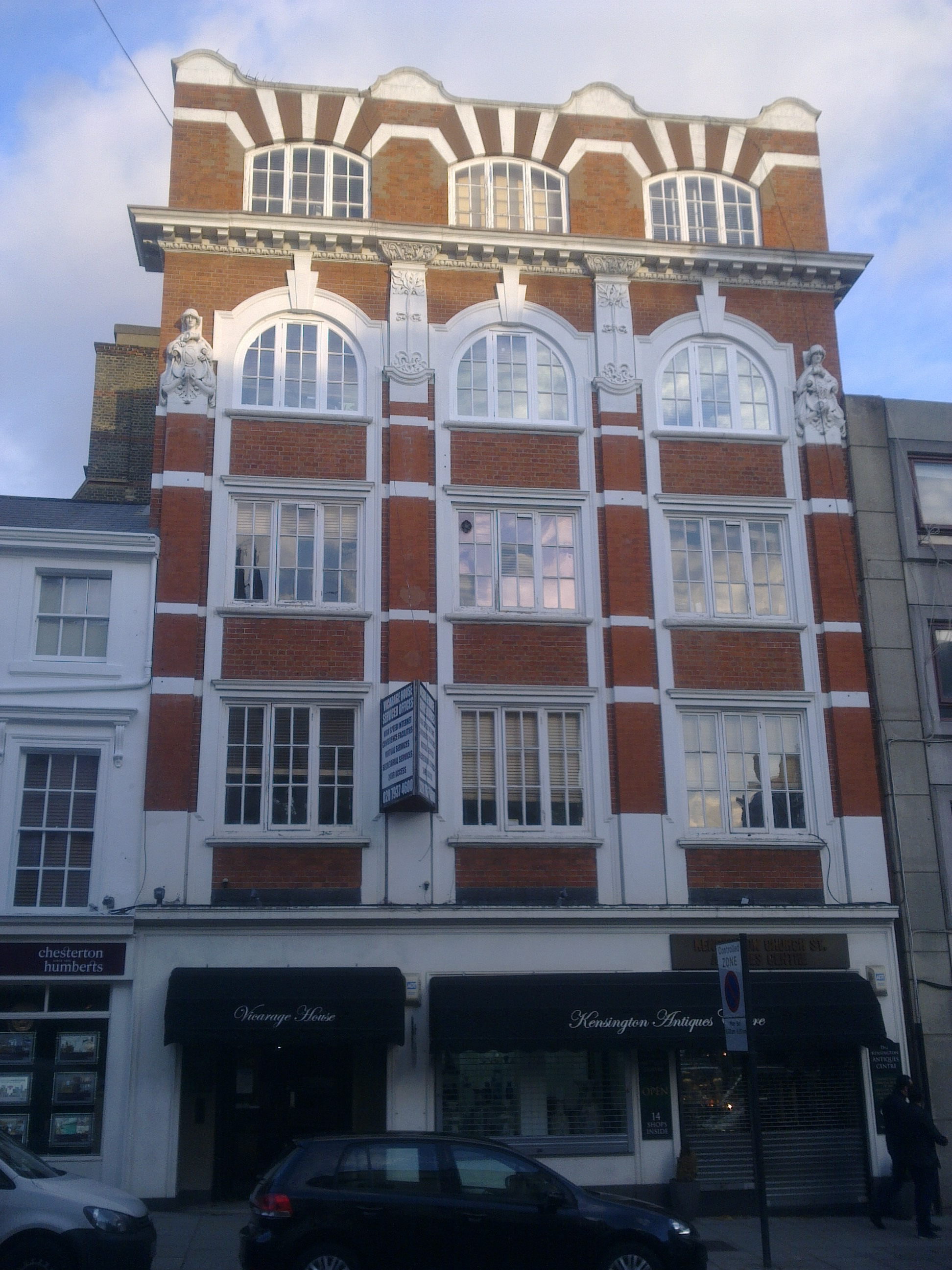 Embassy of Nicaragua in London